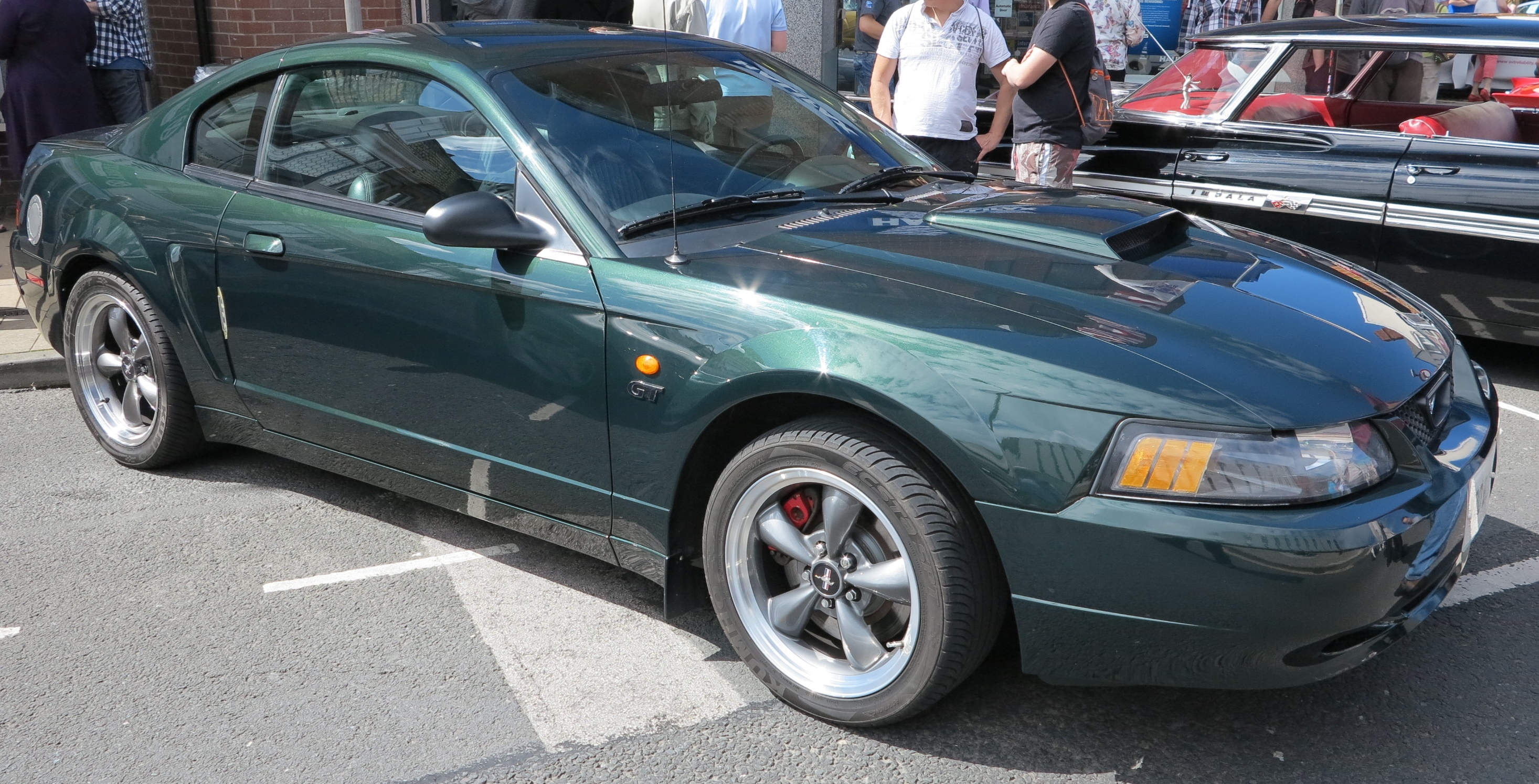 Bullit Edition ford mustang